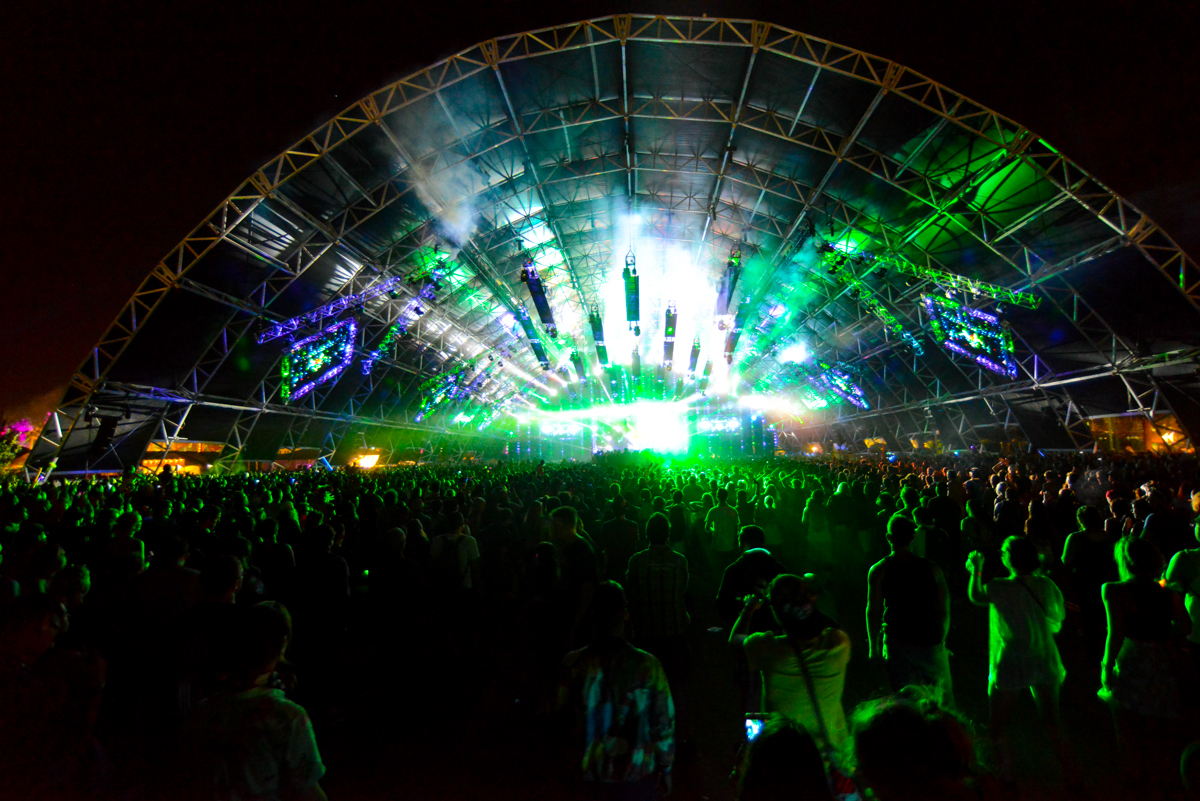 A view of the Sahara Tent during Coachella 2014 on the 2nd weekend, day two